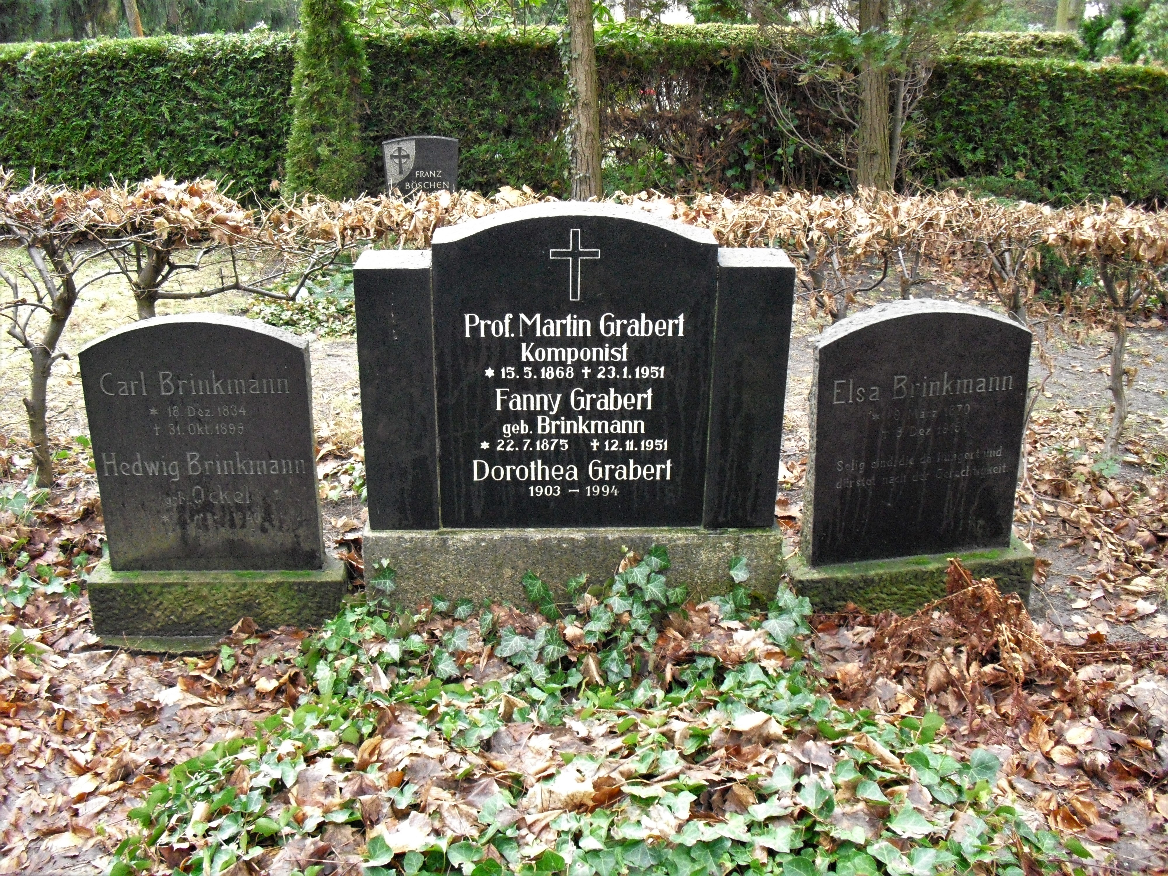 Grave of German Composer Martin Grabert in Friedhof Steglitz, Berlin.